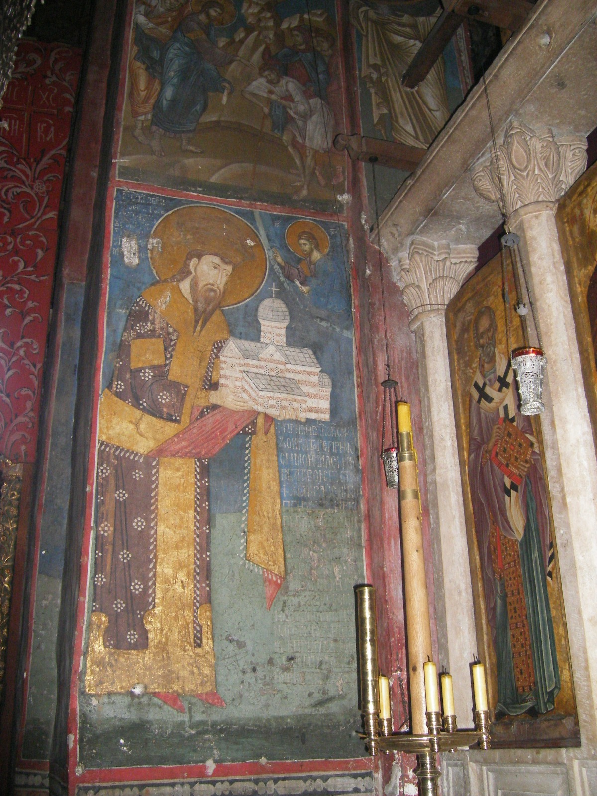 Visoki Decani